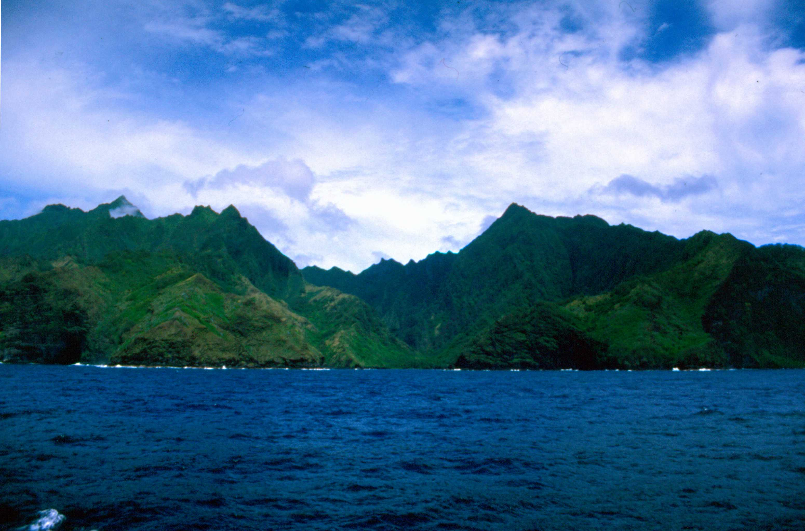 Western coastline of Fatu Hiva, Marquesas Islands, French Polynesia